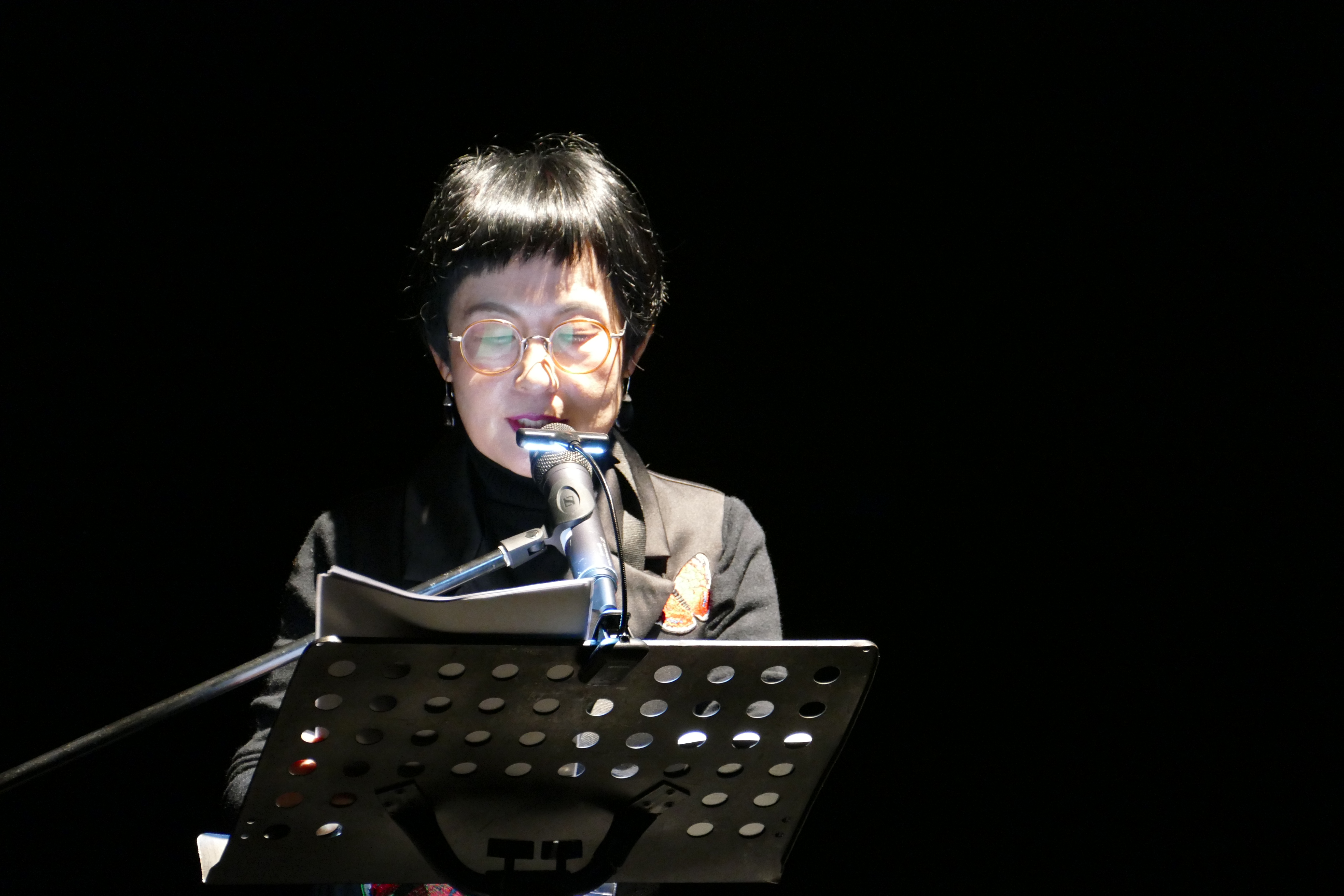 South Korean poet Kim Hyesoon reading at the event Fokus Lyrik 2019 in Frankfurt